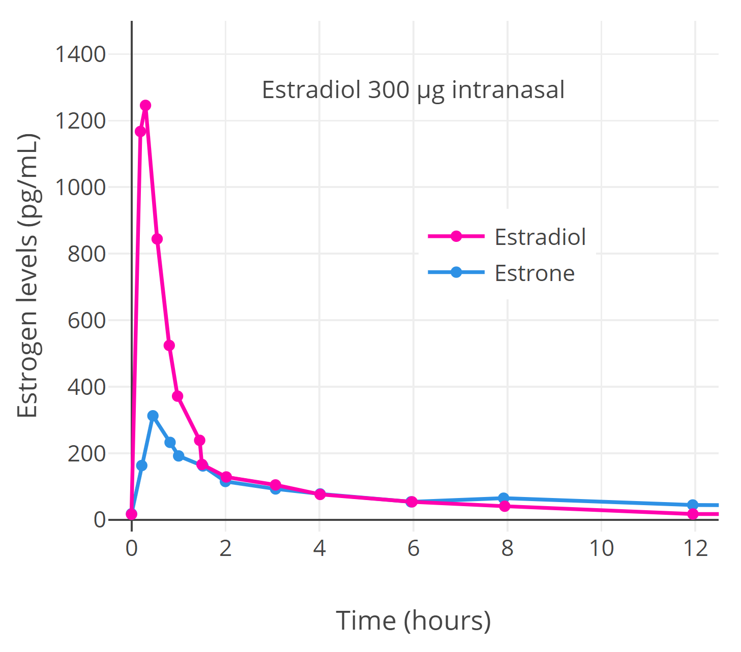 Levels of estradiol and estrone (pg/mL) after a single 300 μg dose of estradiol delivered by a nasal spray (brand name Aerodiol; developmental code name S21400) in 12 postmenopausal women. Estradiol was formulated in the aqueous spray as an estradiol/methylated-β-cyclodextrin complex. Source of the values: (1999). "Pulsed estrogen therapy: pharmacokinetics of intranasal 17-beta-estradiol (S21400) in postmenopausal women and comparison with oral and transdermal formulations". Eur J Drug Metab Pharmacokinet 24 (3): 265–71. PMID 10716066. Secondary source that reproduces the graph: (2005). "Pharmacology of estrogens and progestogens: influence of different routes of administration". Climacteric 8 Suppl 1: 3–63. PMID 16112947.